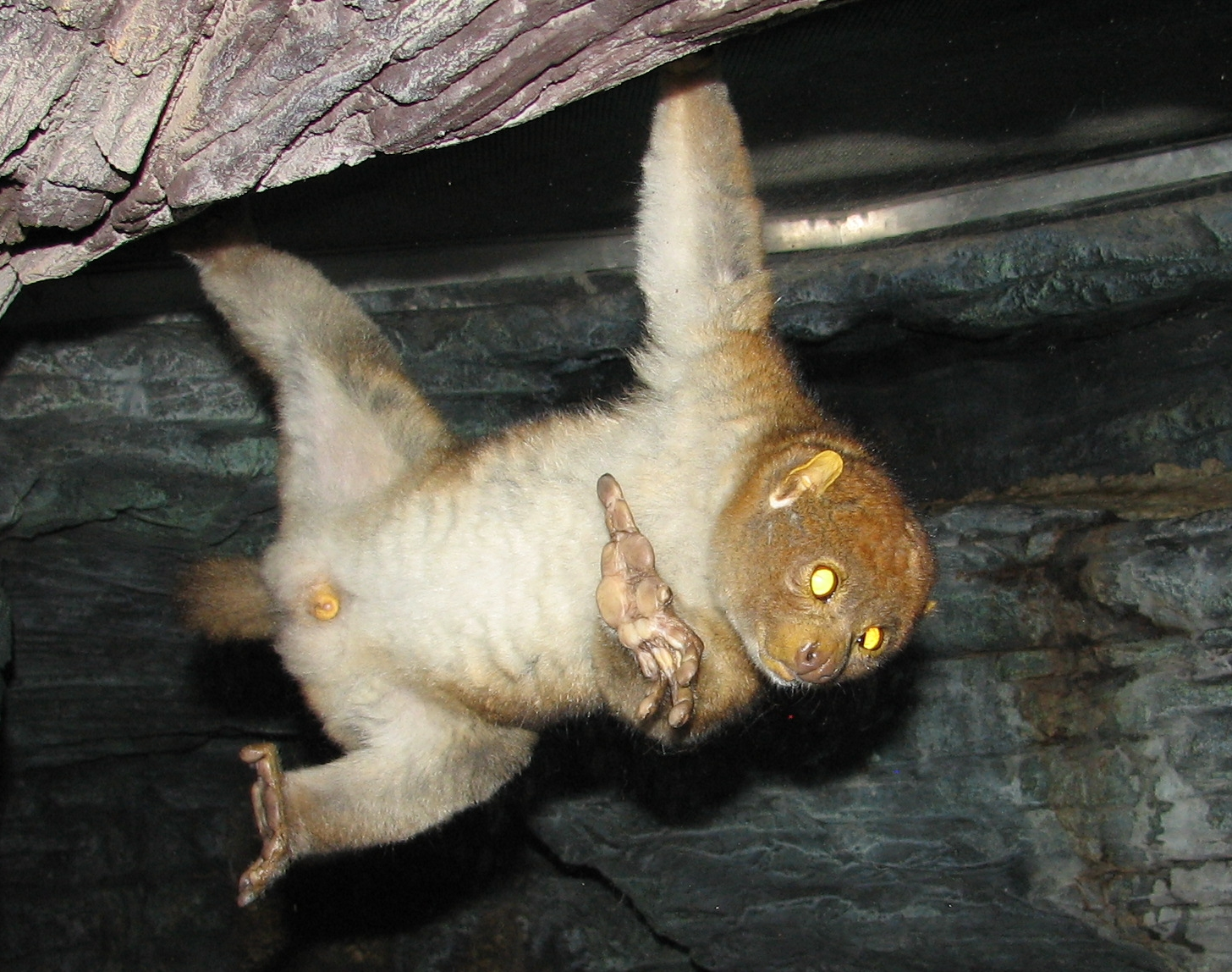 Potto - Perodicticus potto en at Cincinnati Zoo